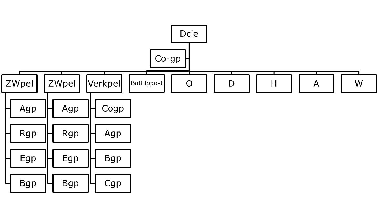 Organogram patrolcompagnie